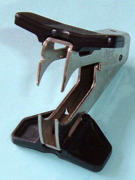 Purchased in the US Faber Castell brand Made in Sweden Photographed on blue paper